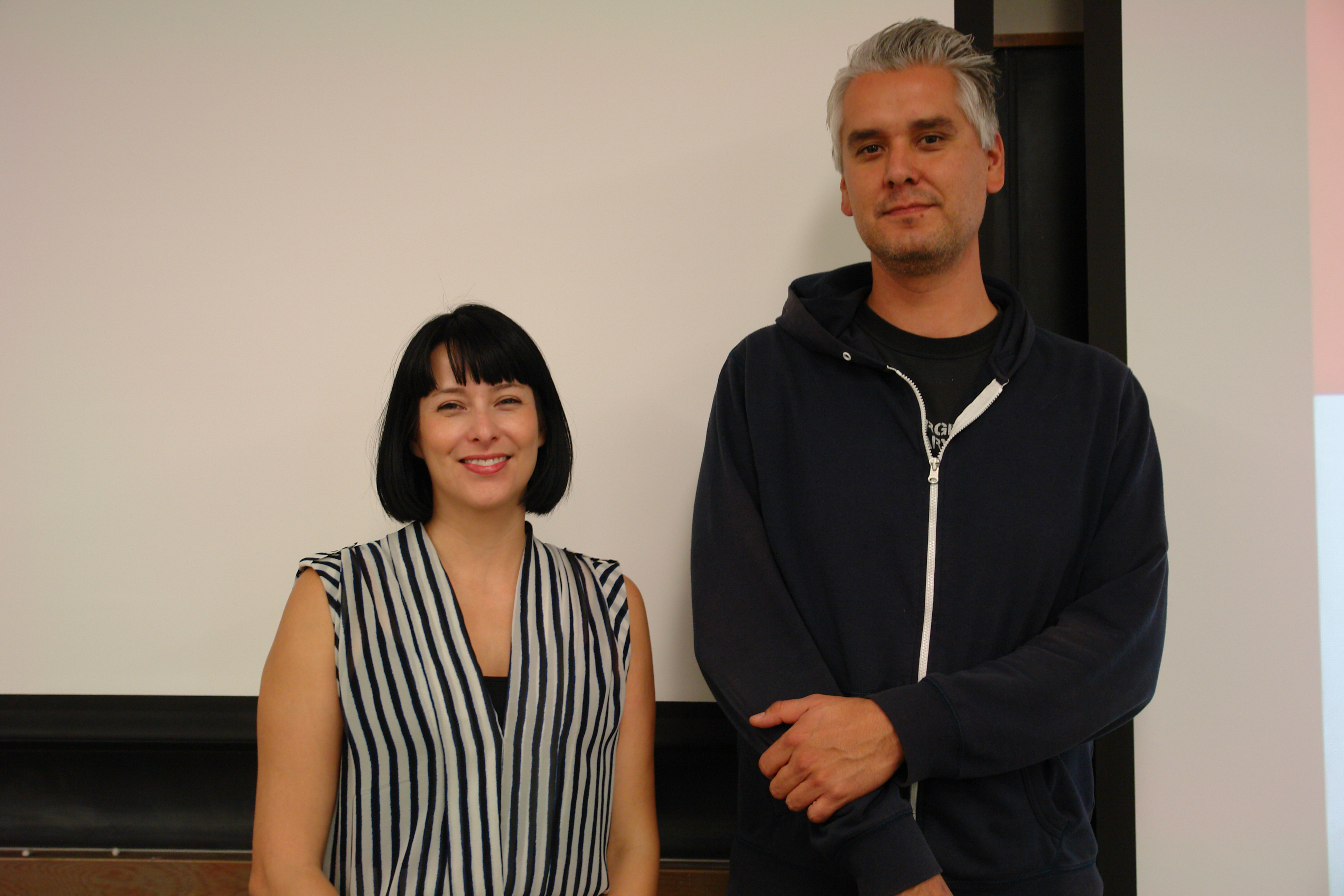 Dory Nason and Glen Coulthard